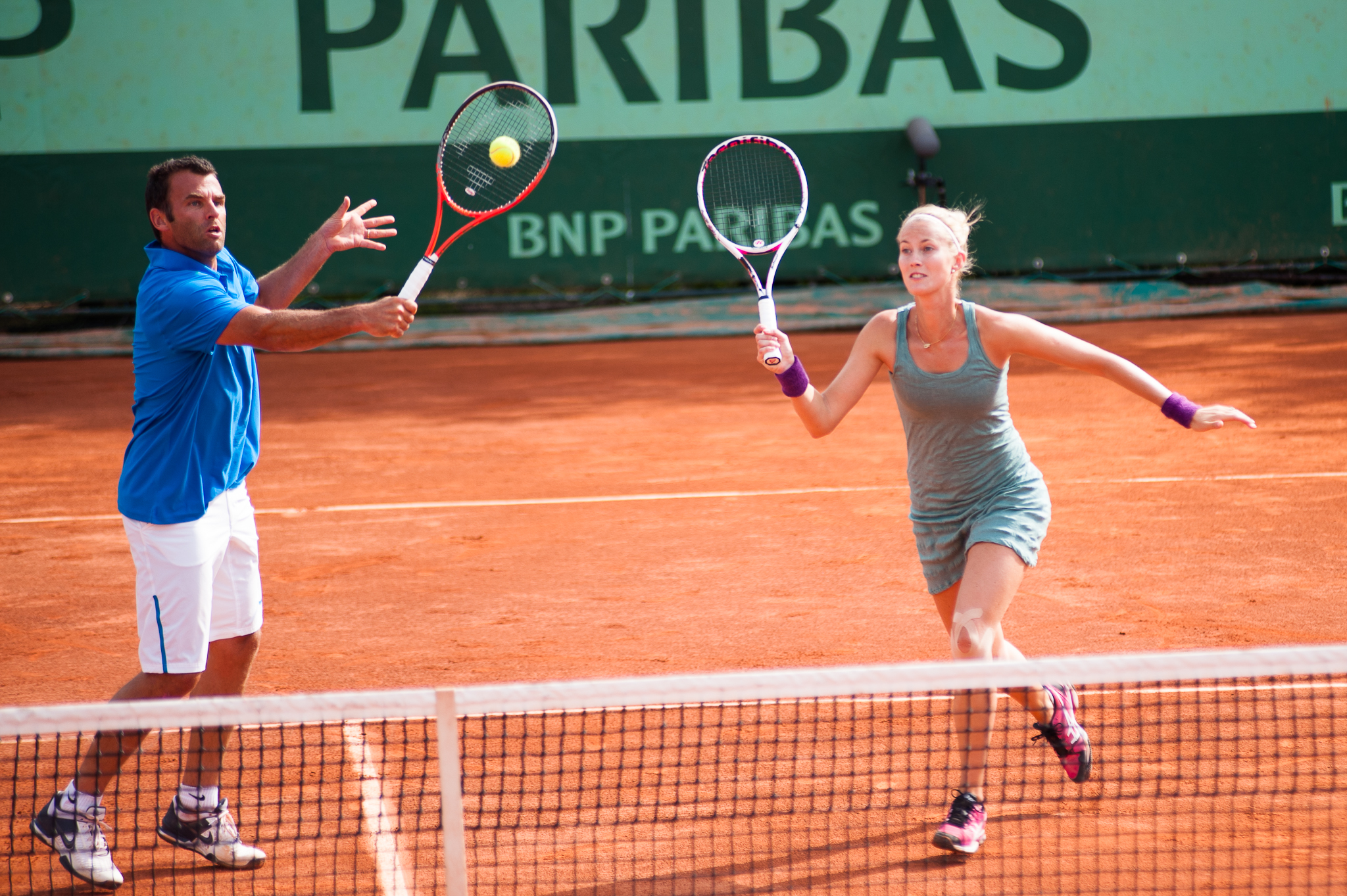 Marc Gicquel - Mathilde Johansson, Roland-Garros 2012.